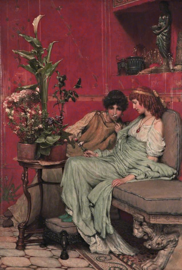 Lawrence Alma-Tadema's art